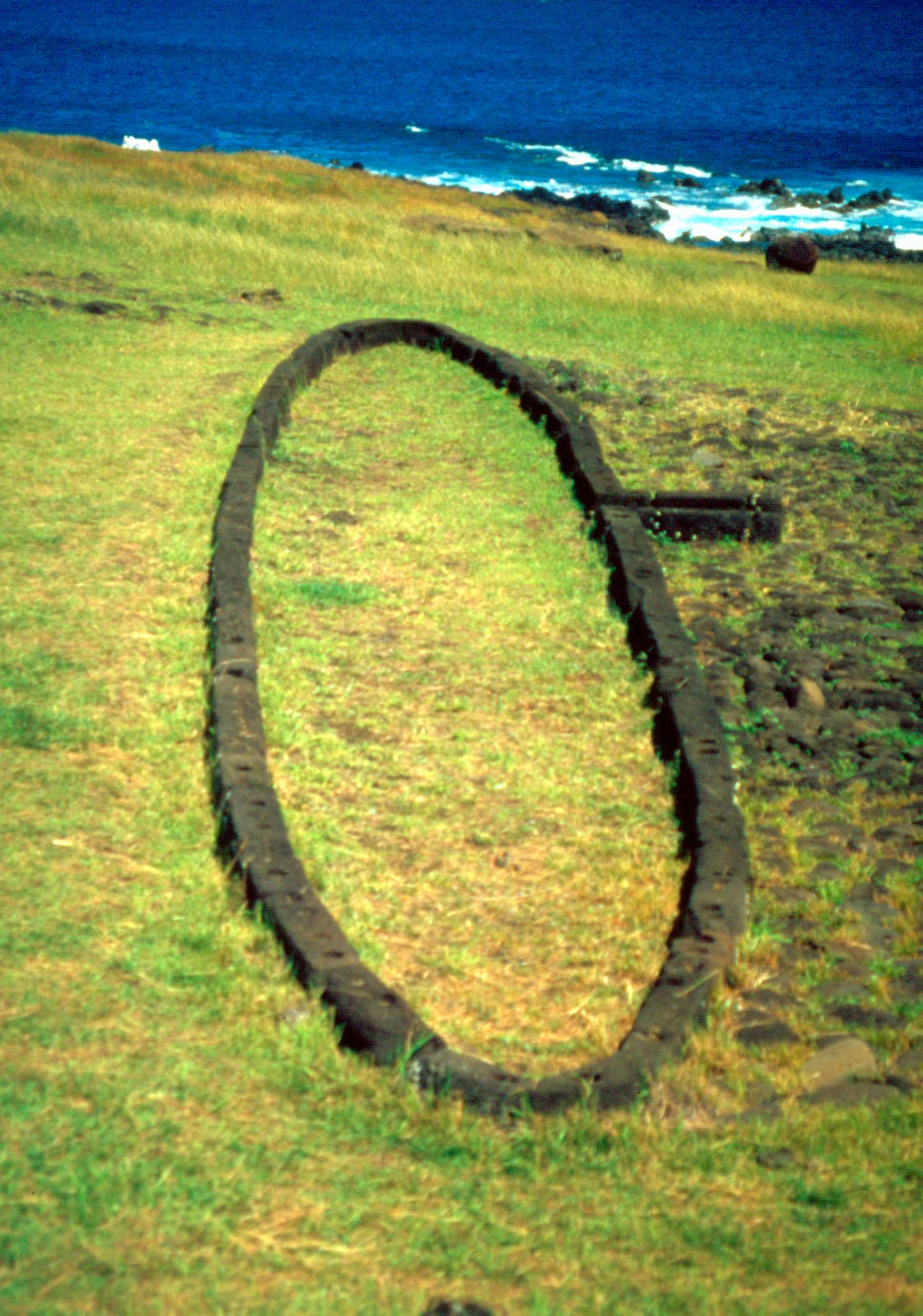 Remains of a Paenga house on Easter Island